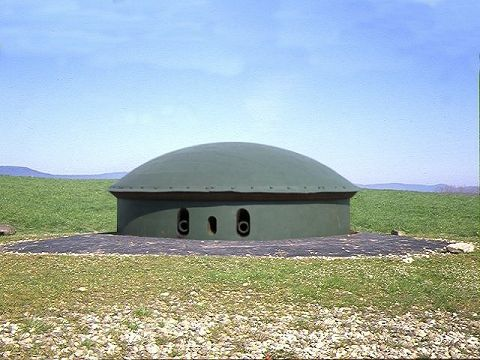 Moving of the turret from block 3 at Ouvrage Schoenenbourg